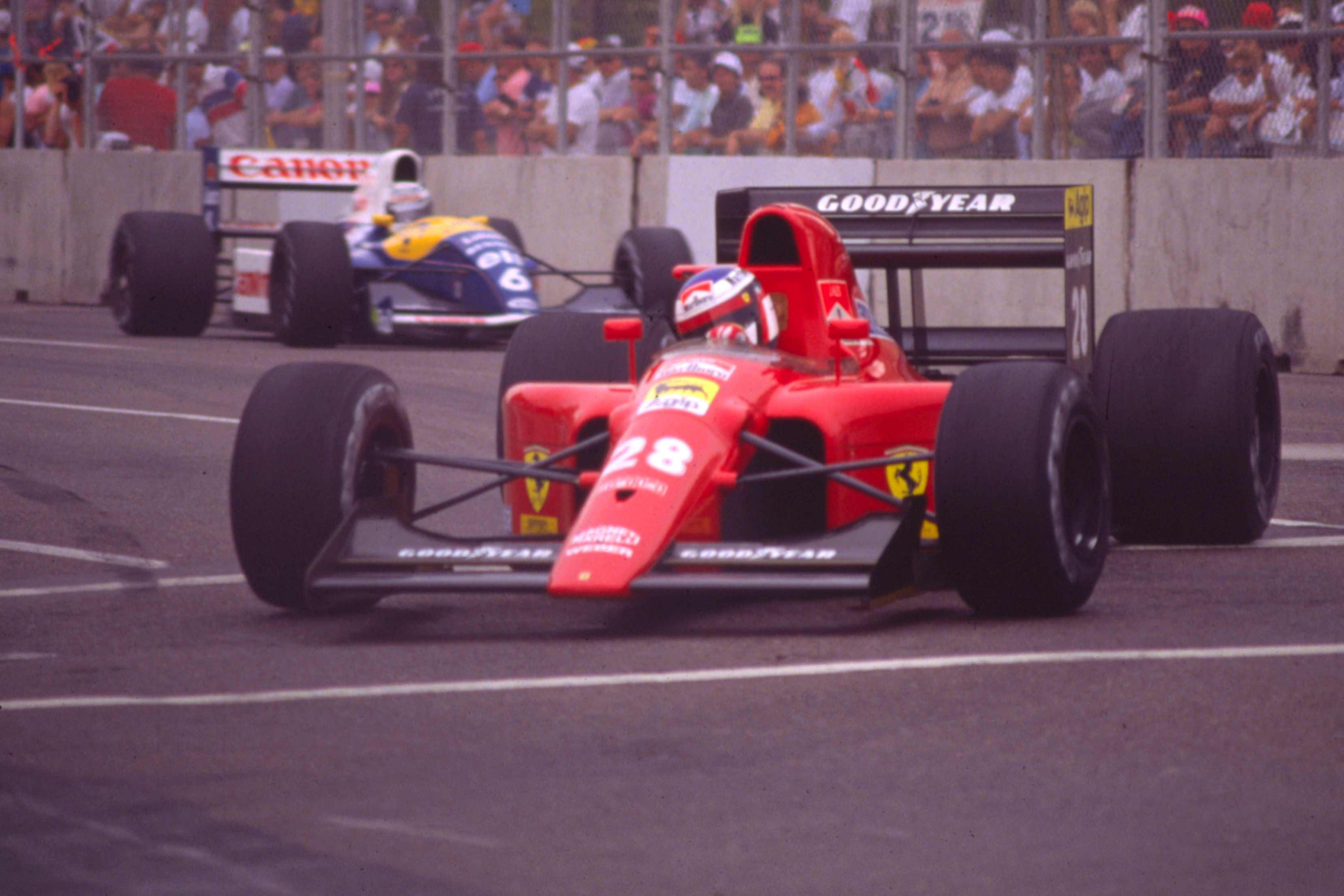 1991 US Grand Prix in Phoenix, Arizona.